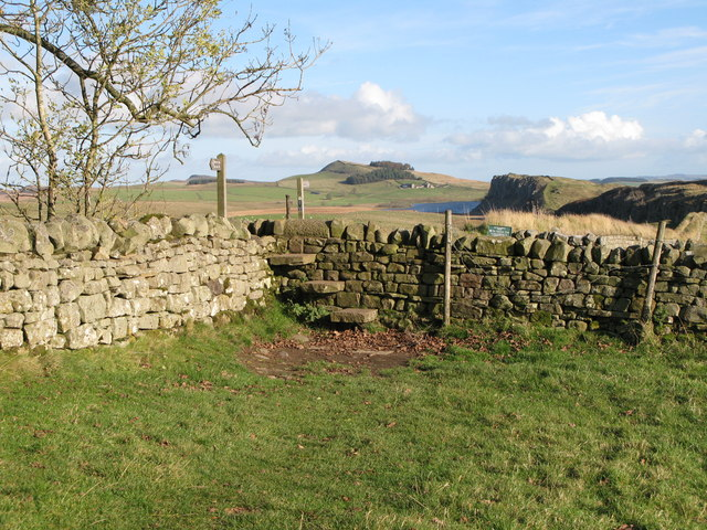 (The site of) Turret 39b Looking east from the western edge of the grid square towards Peel Crags, Highshield Crags above Crag Lough in NY7667 and Hotbank Farm and Hotbank Crags in NY7768.